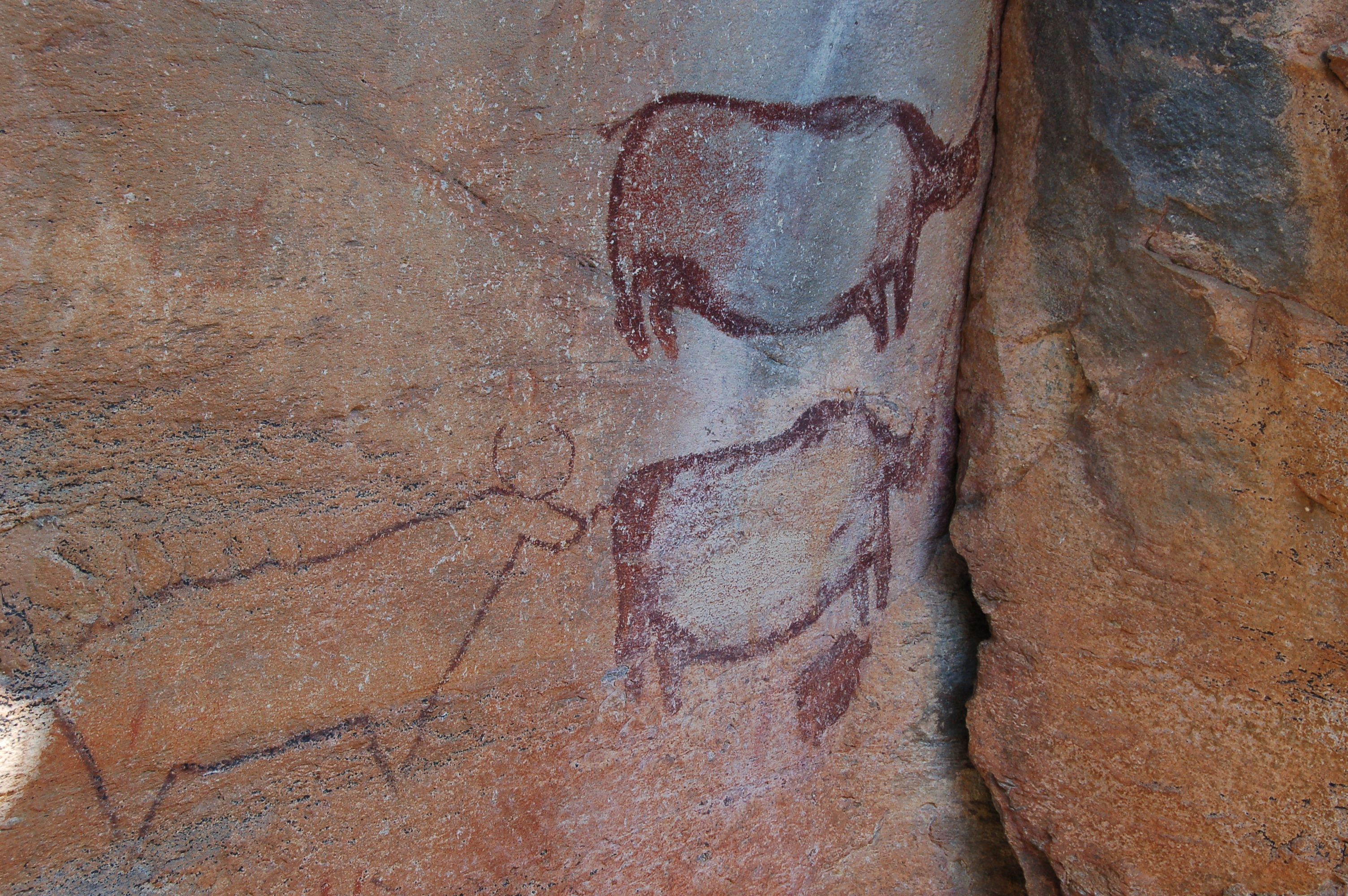 Rock paintings in Tsodilo Hills, Botswana